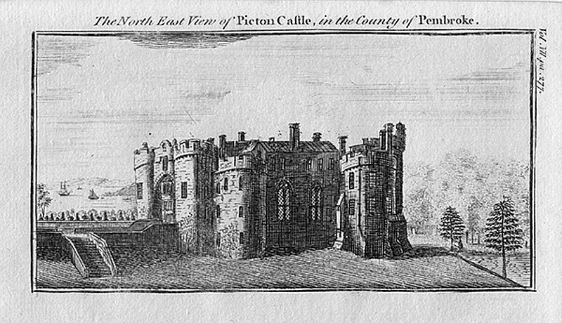 The North East View of Picton Castle